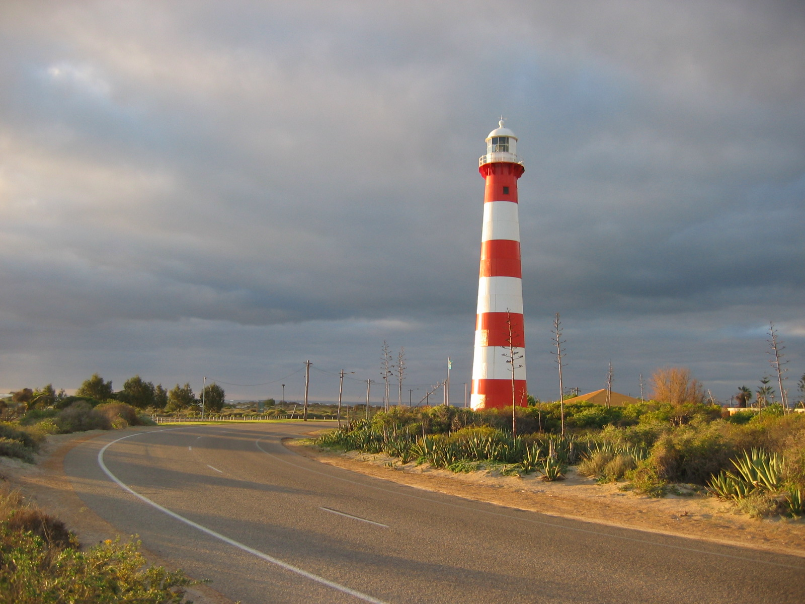 Point Moore Lighthouse, Geraldton, Western Australia.